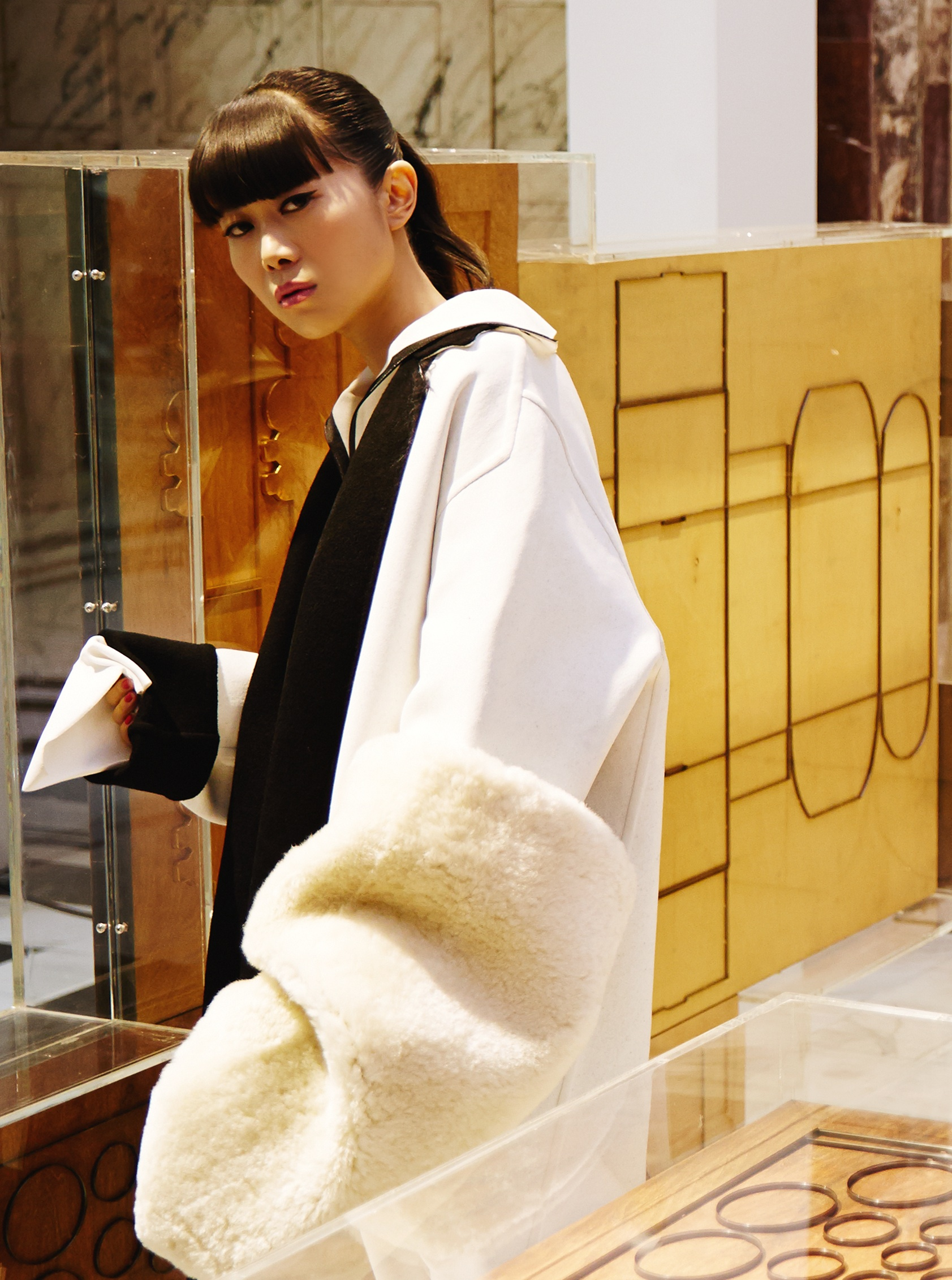 Photo by Zeng Wu